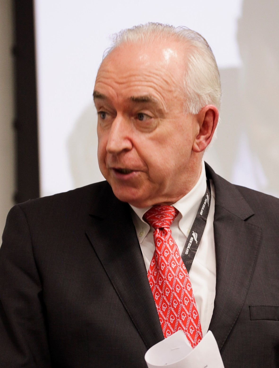 23 September, 2011 - New York Permanent Representative of New Zealand to the UN, Jim McLay, at the Conference on Facilitating the Entry into Force of the Comprehensive Nuclear-Test-Ban Treaty. Photographer: James Leynse Copyright CTBTO Preparatory Commission